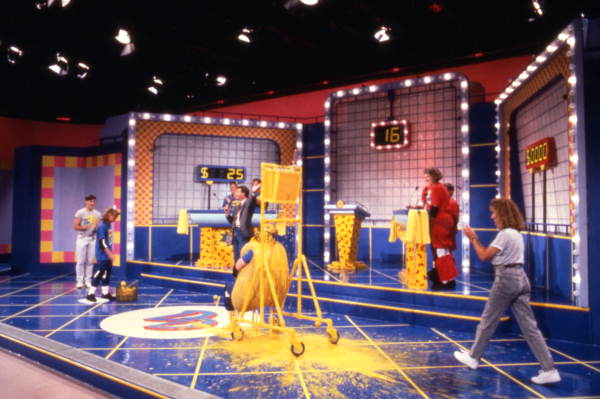 The completion of a Family Double Dare physical challenge